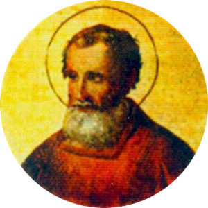 Portait of Pope Celestine V in the Basilica of Saint Paul Outside the Walls, Rome